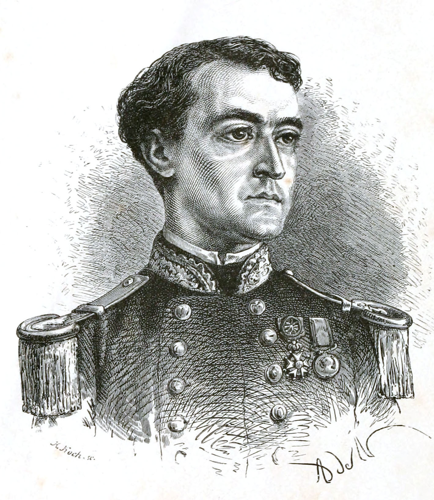 Portrait of Eugène Mage (1837-1869)